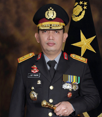 Chief of Banten Regional Police, Brigadier General Listyo Sigit Prabowo in 2016.